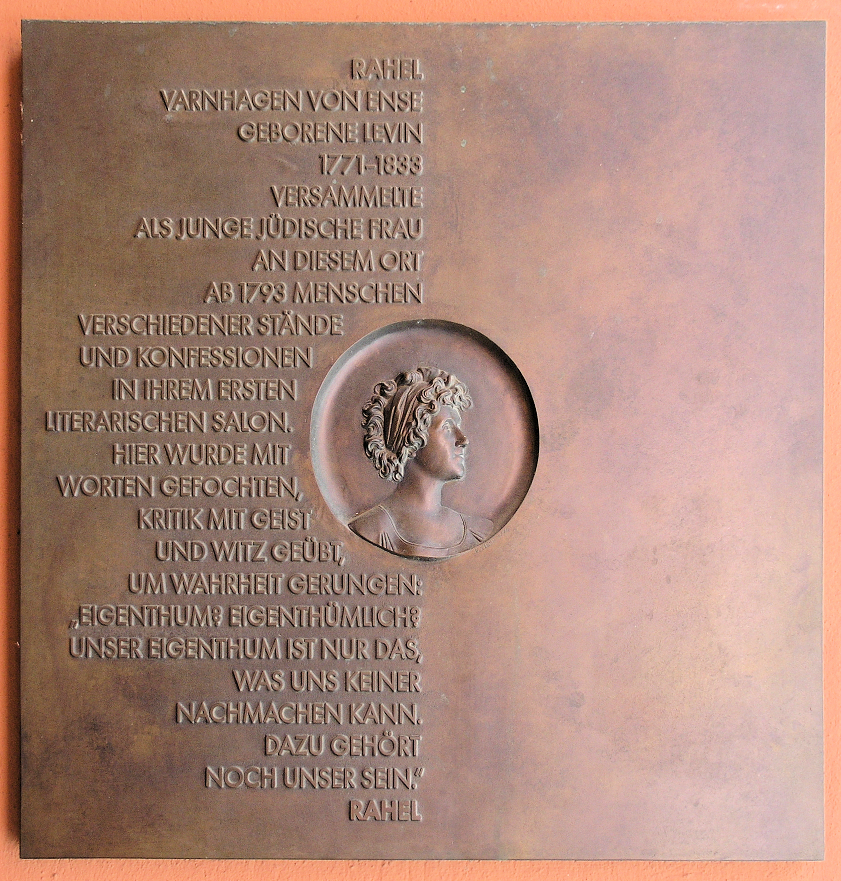 Memorial plaque, Rahel Varnhagen von Ense, Jägerstraße 22-23, Berlin-Mitte, Germany Koordinate:52°30′51″N 13°23′39″E / 52.51417°N 13.39417°E